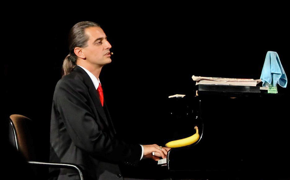 Hagen Rether, German cabaret artist in performance at Waldorf-School in Wangen (Allgäu).